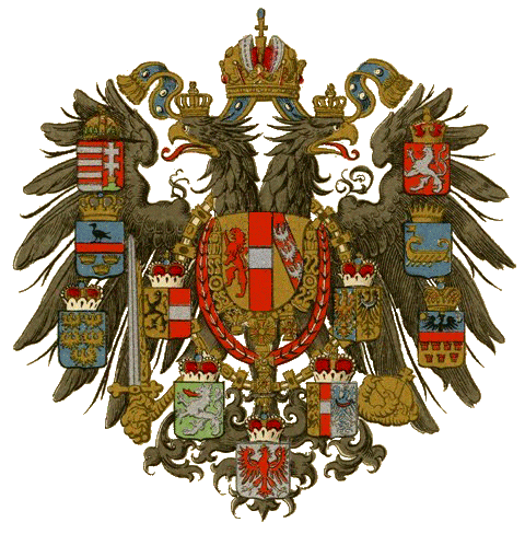 Middle Common Coat of Arms of Austria-Hungary, 1867–1915